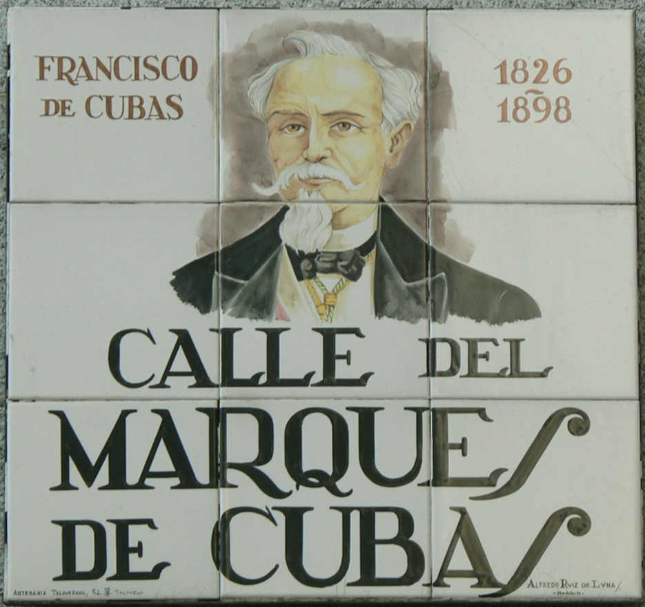 Sign of Calle del Marqués de Cubas (street, Centro district) in Madrid (Spain).